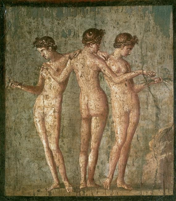 from Pompeii, Regio IV, Insula Occidentalis, The Three Graces, 1st-century BC-1st century AD, Fresco, Museo Archeologico Nazionale di Napoli (inv. 9231).